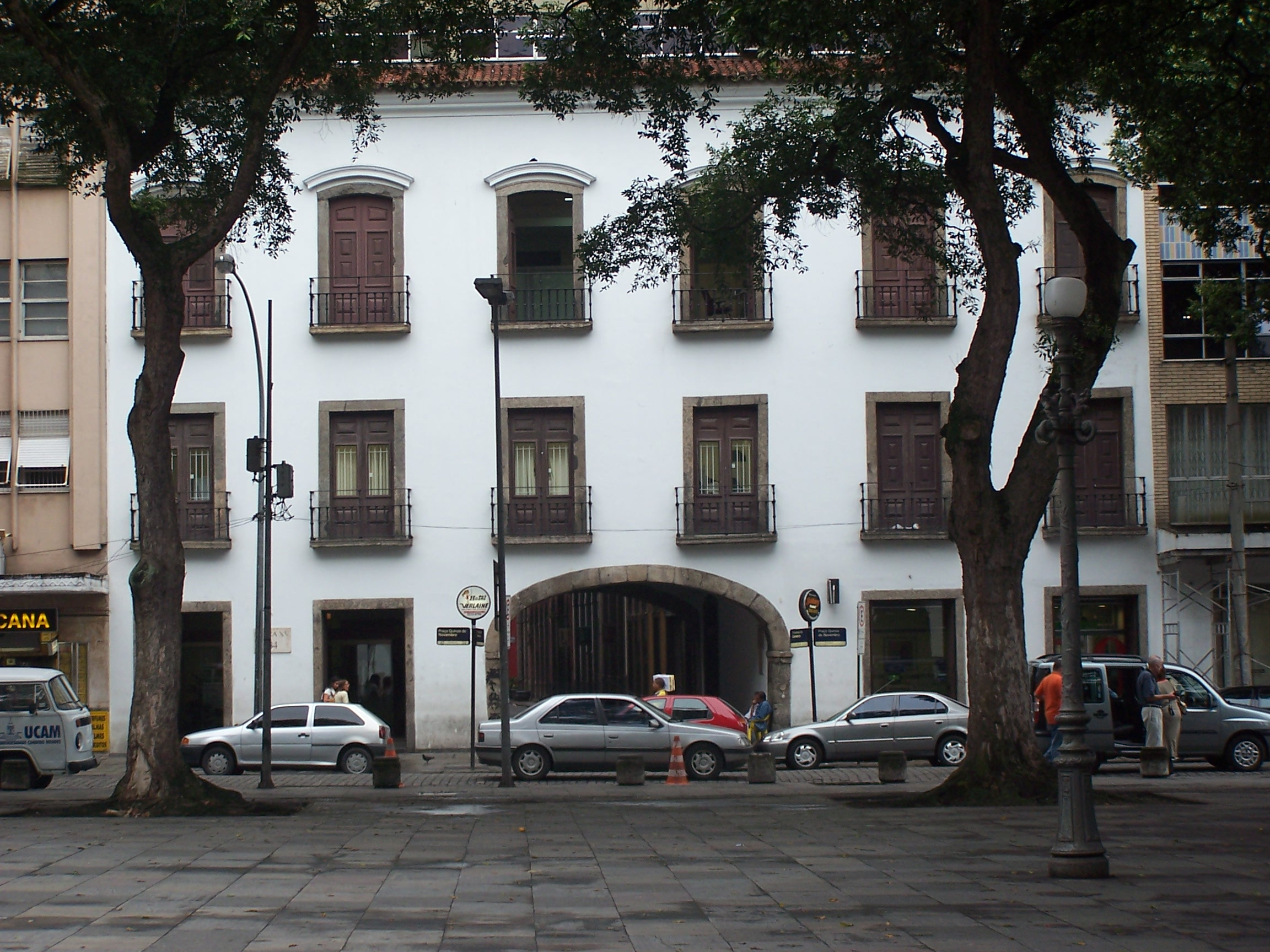 Arco do Teles building in Praça XV, Rio de Janeiro, Brazil.